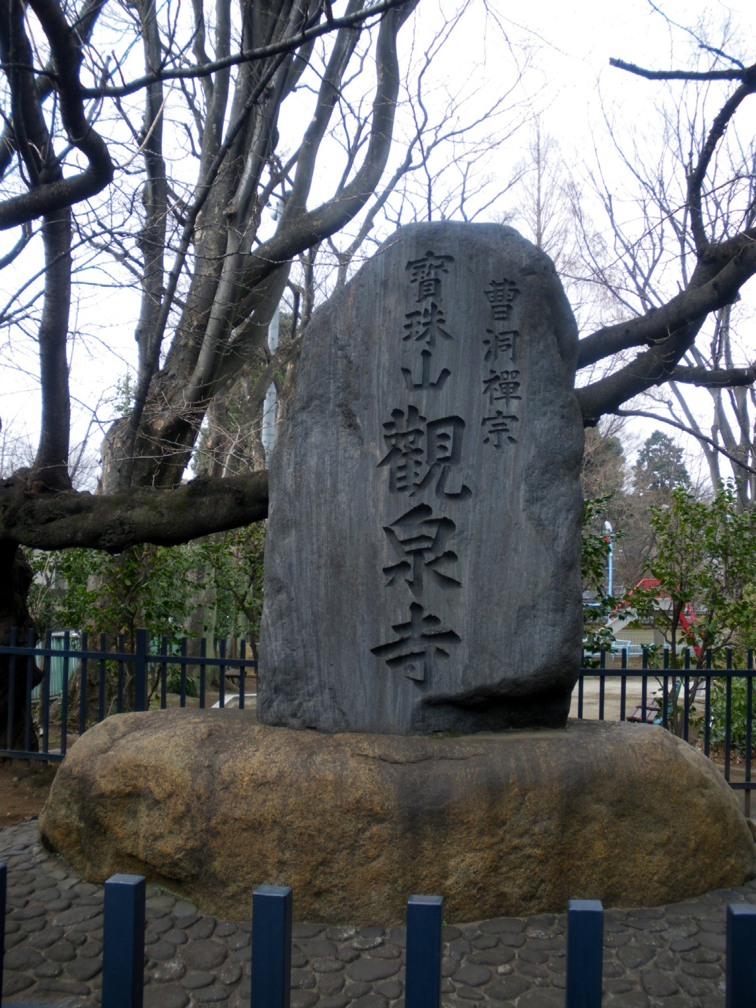 A photo of the monument of kansenji temple at Imagawa,Suginami-ku,Tokyo,Japan.